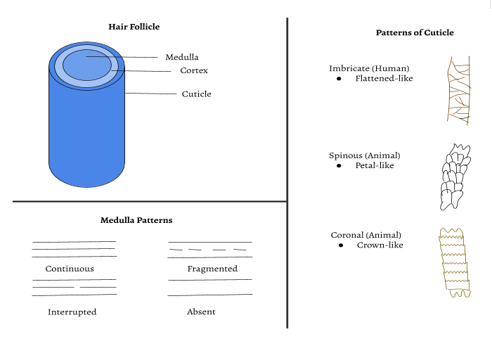 Hair strands are made up of different components as listed above and contain a variety of distinguishable patterns with the pigment, medulla, and scale structure that allow forensic scientists to use them as evidence in solving crimes.